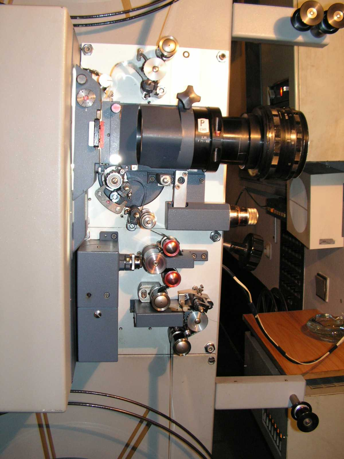 Film track in the czechoslovak cinema projector Meo 5X-B, producer MEOPTA Přerov (year 1985).